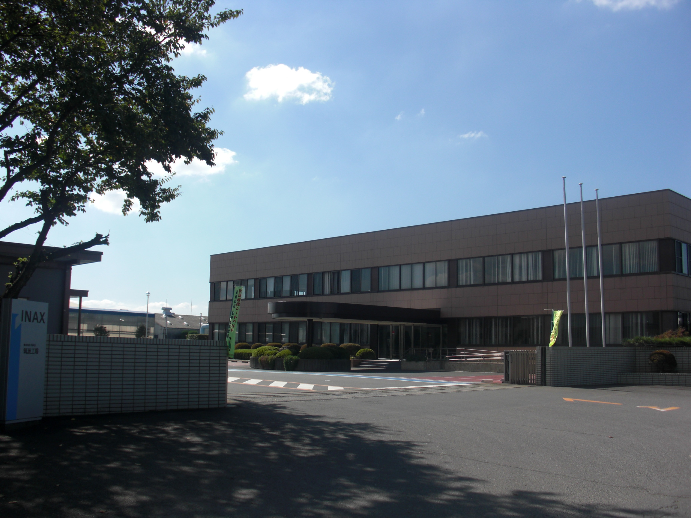 This is the INAX Tsukuba Factory, which is located in Kamioshima, Tsukuba, ibaraki, Japan.